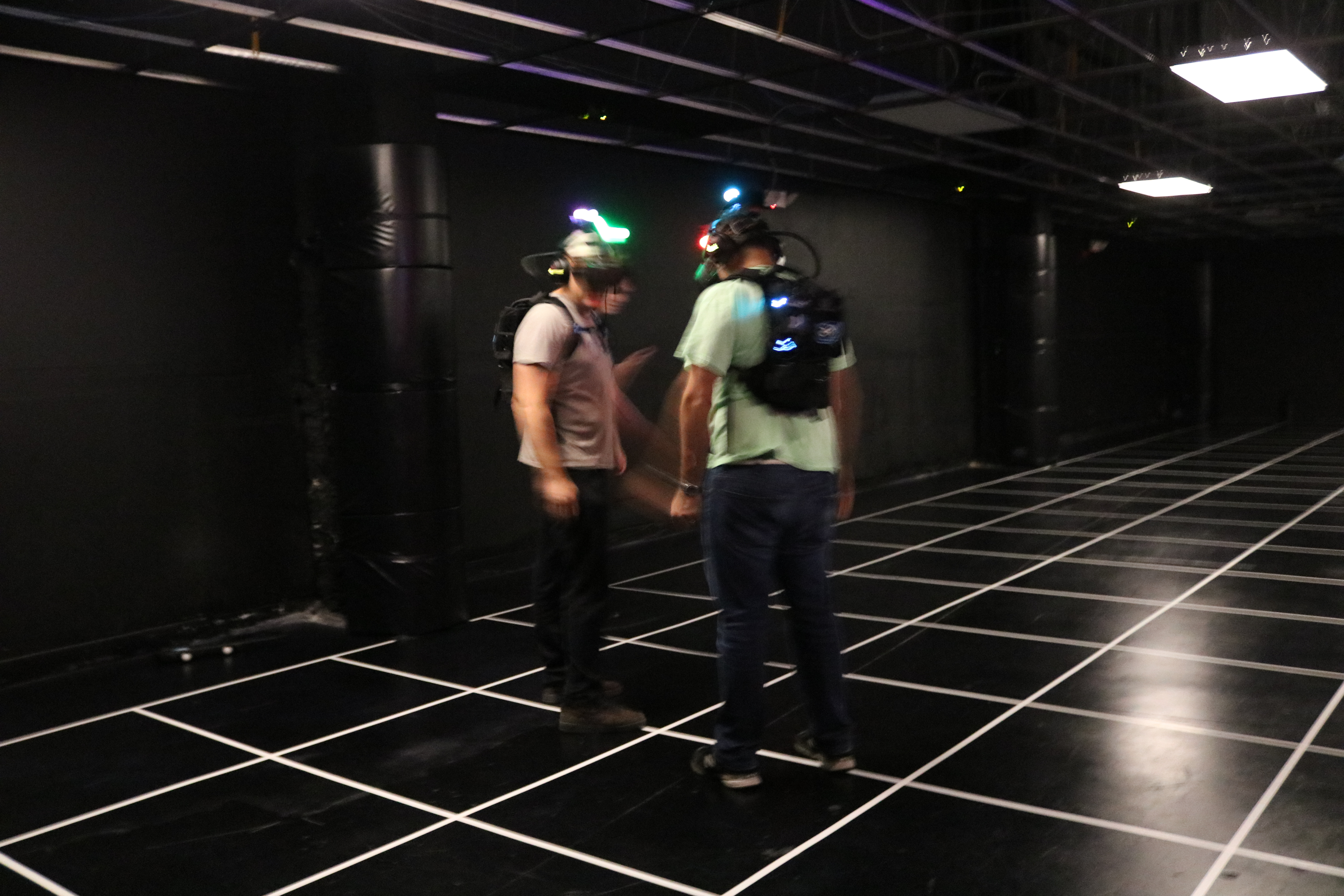 Virtual Reality Powered by Zero Latency,” will immerse up to eight players in a completely interactive digital universe, allowing them to physically navigate considerable distances through the 2,000-square-foot arena while collaborating with other players in heart-racing challenges.